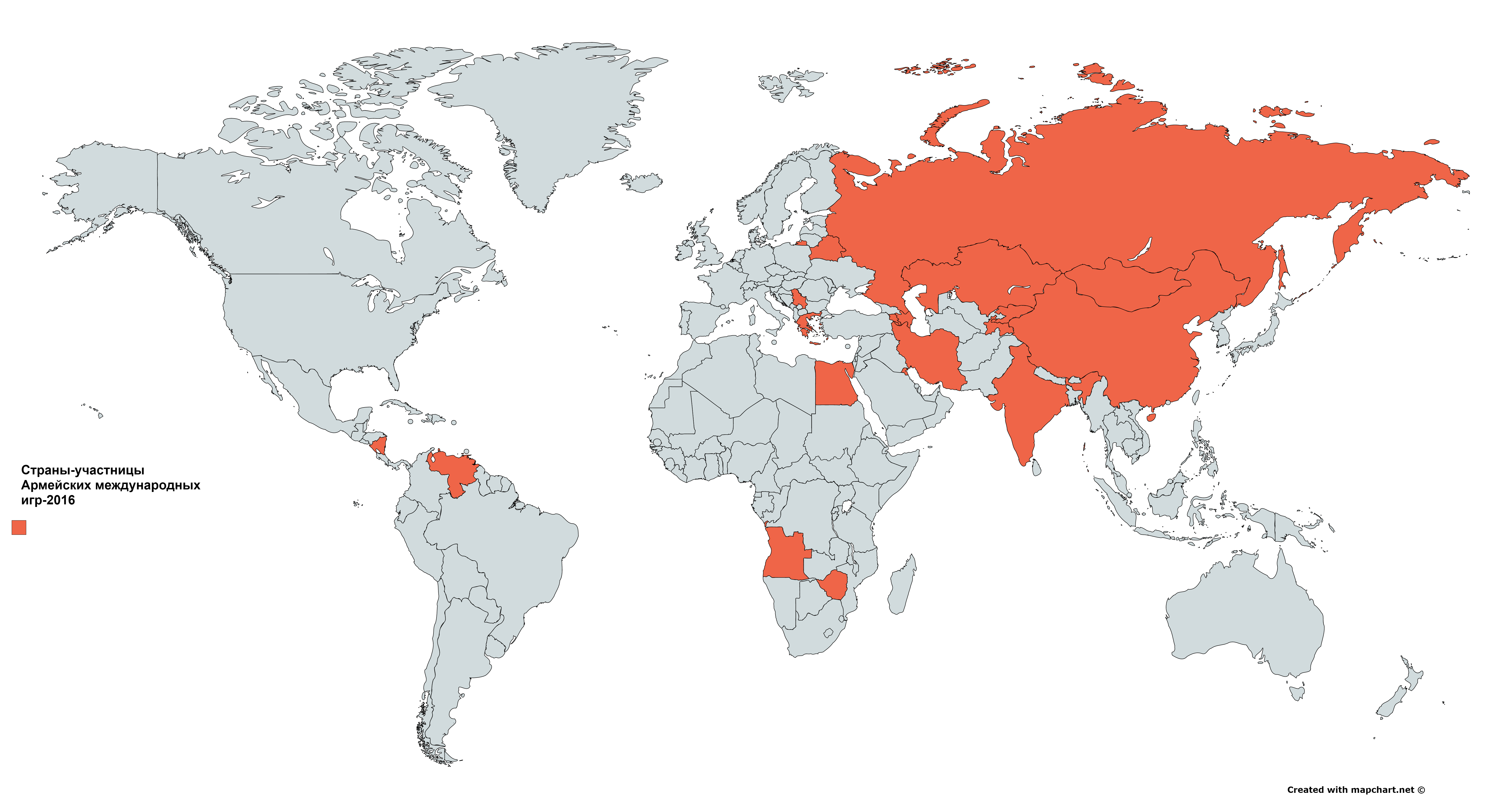 19 countries were represented at International military games 2016: Russia, Kazakhstan, China, Venezuela, Angola, Belarus, Egypt, Iran, Azerbaijan, Zimbabwe, Armenia, Mongolia, India, Serbia, Kuwait, Kyrgyzstan, Nicaragua, Tajikistan and Greece.